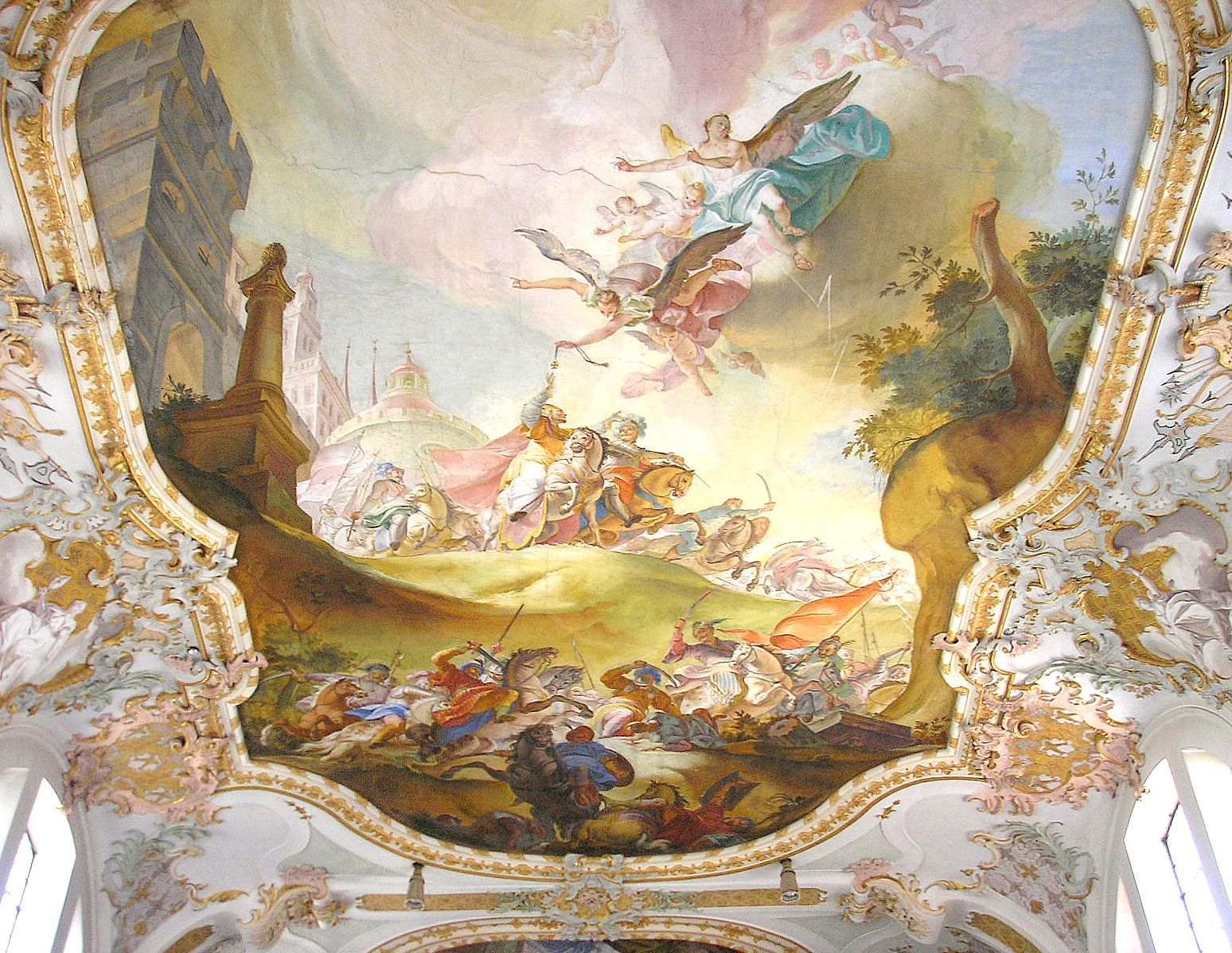 Parish church St. Ulrich (Eresing, Landkreis Landsberg am Lech, Upper Bavaria, Germany). Great fresco of the nave (Battle at the Lechfeld, Franz Martin Kuen, 1757)